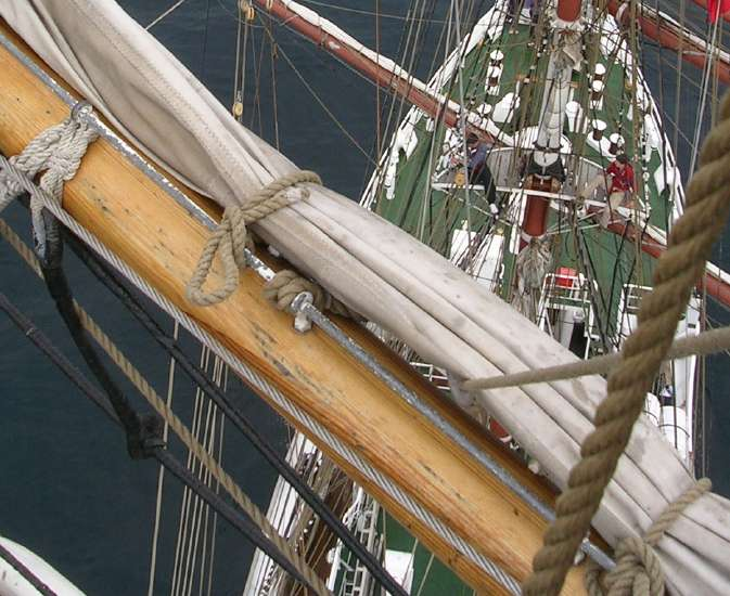 View from the main masthead of Prince William, cropped to focus on a slippery hitch in a gasket, holding the main-royal in a neat harbour-stow.